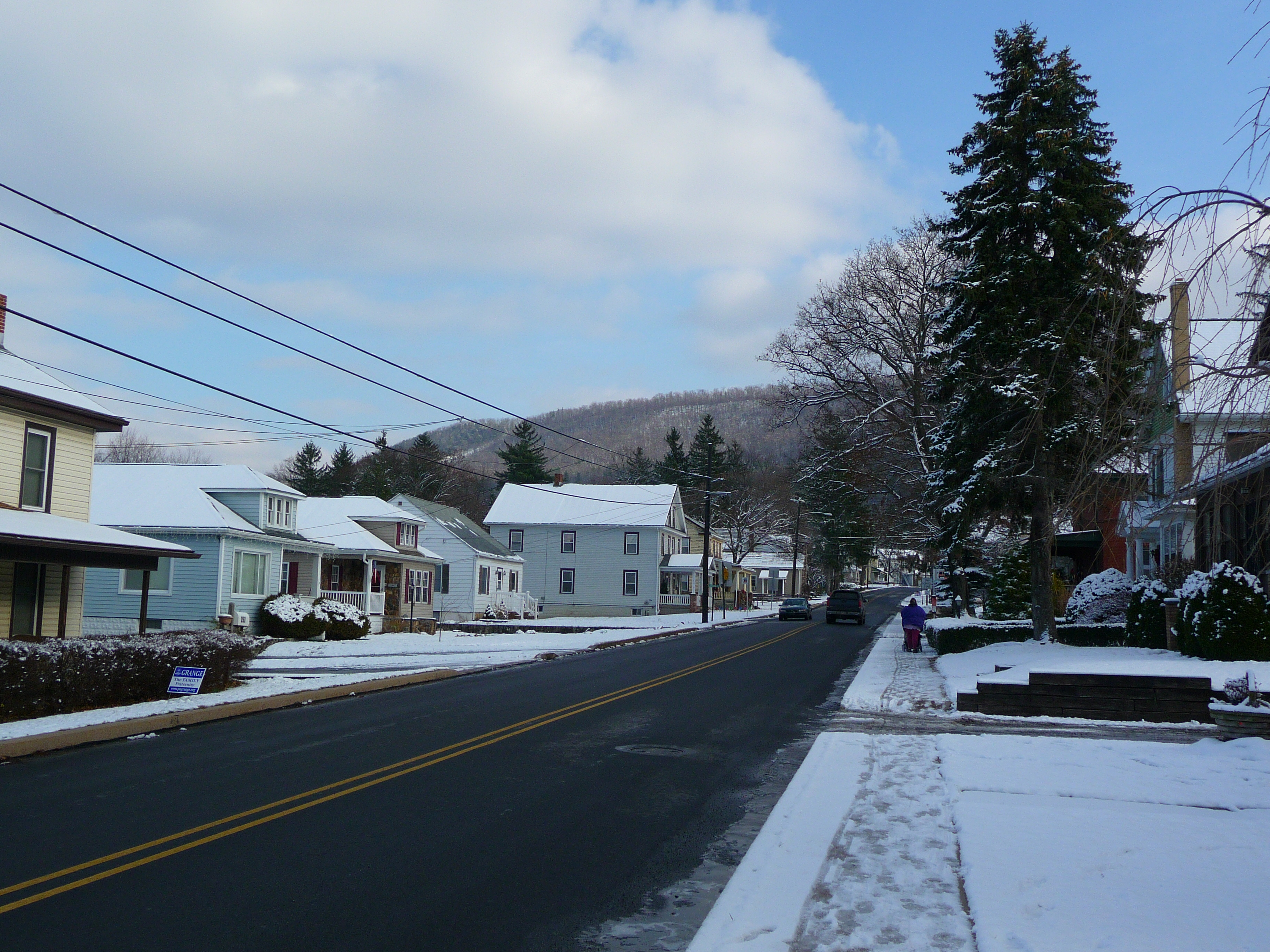 Main Street heading towards the mountain